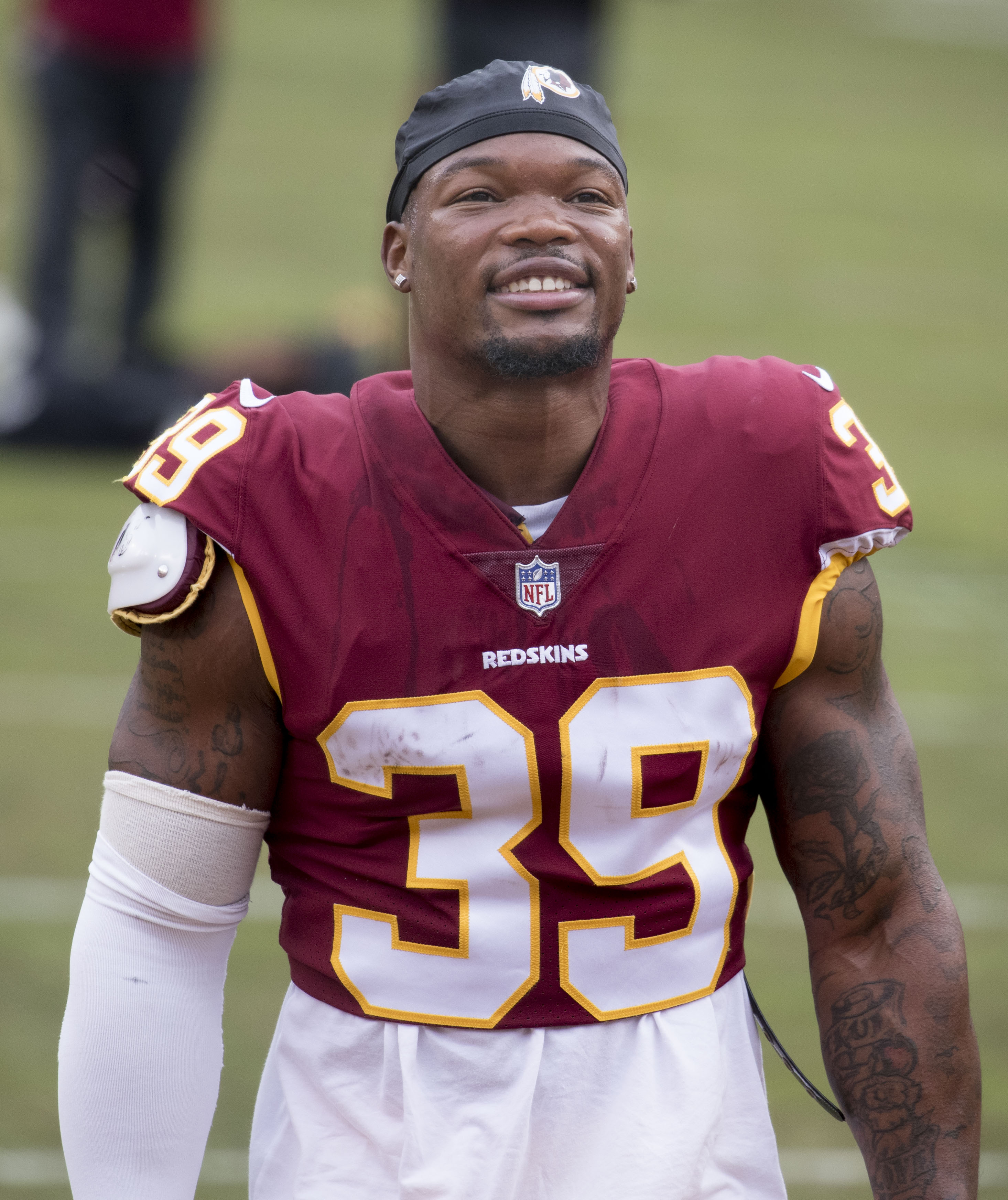 Cardinals at Redskins 12/17/17